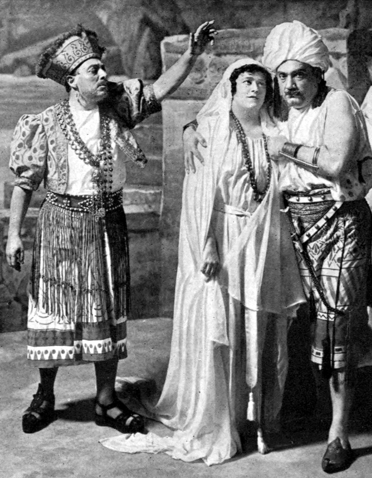 The three leading characters in the 1916 Metropolitan Opera production of Les pêcheurs de perles by Georges Bizet. Enrico Caruso as Nadir is on the right.